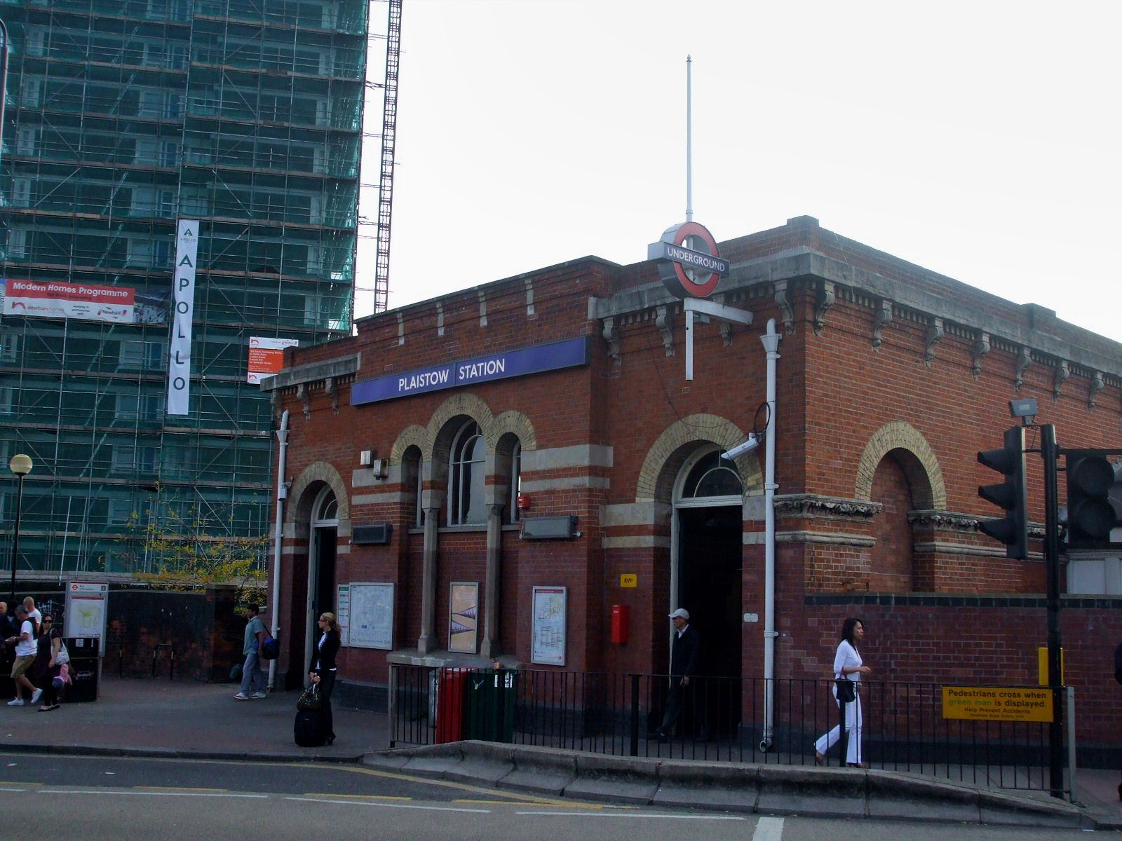 Plaistow tube station building